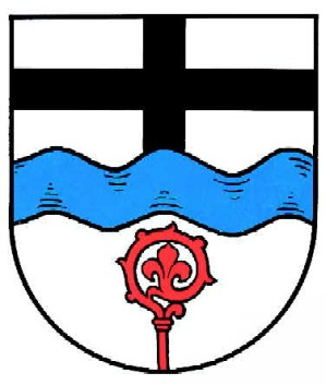 Coat of arms of Berenbach